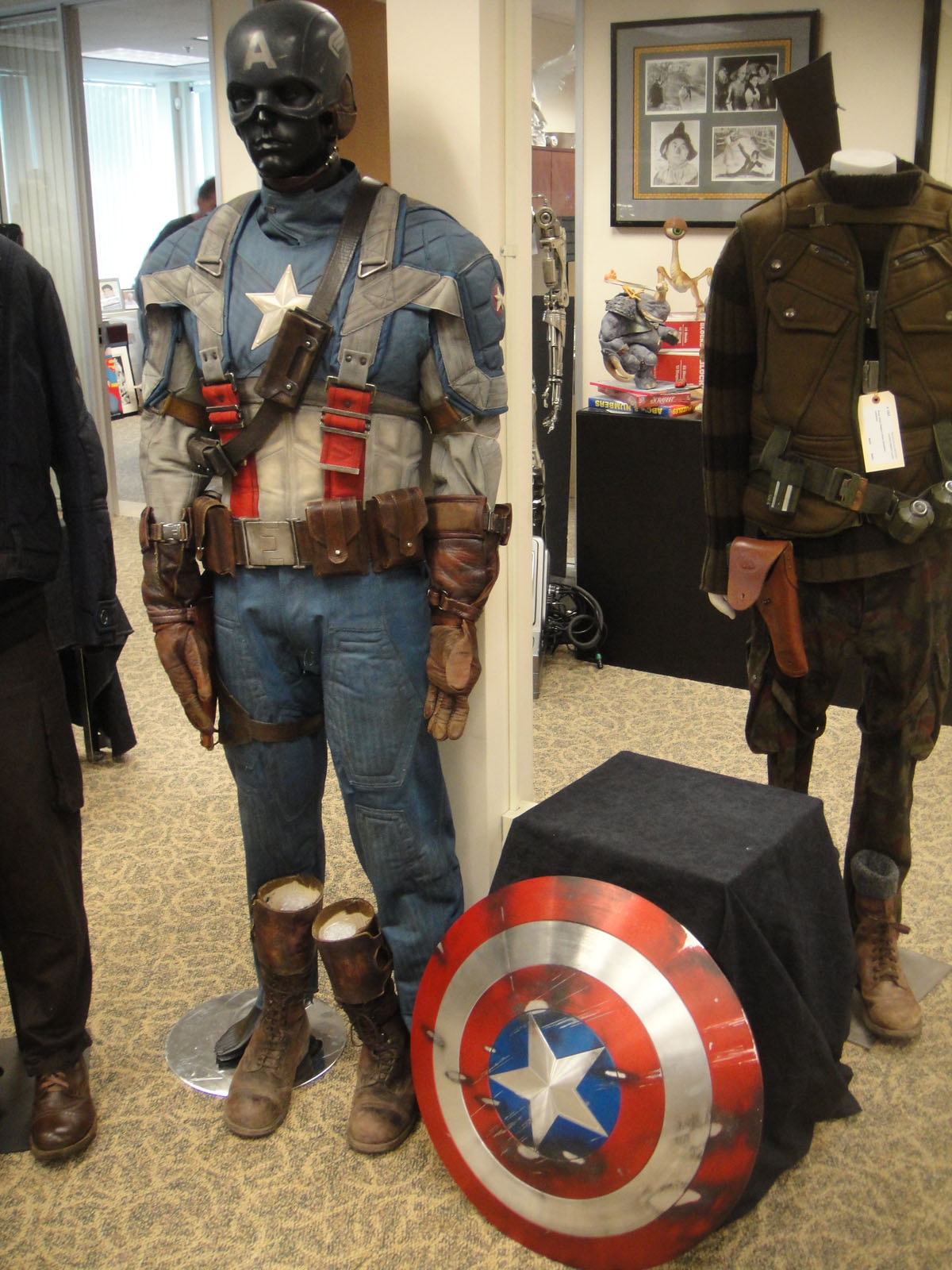 photo 2012 taken by Doug Kline If you're interested in higher resolution versions of my images, contact me via my profile page.